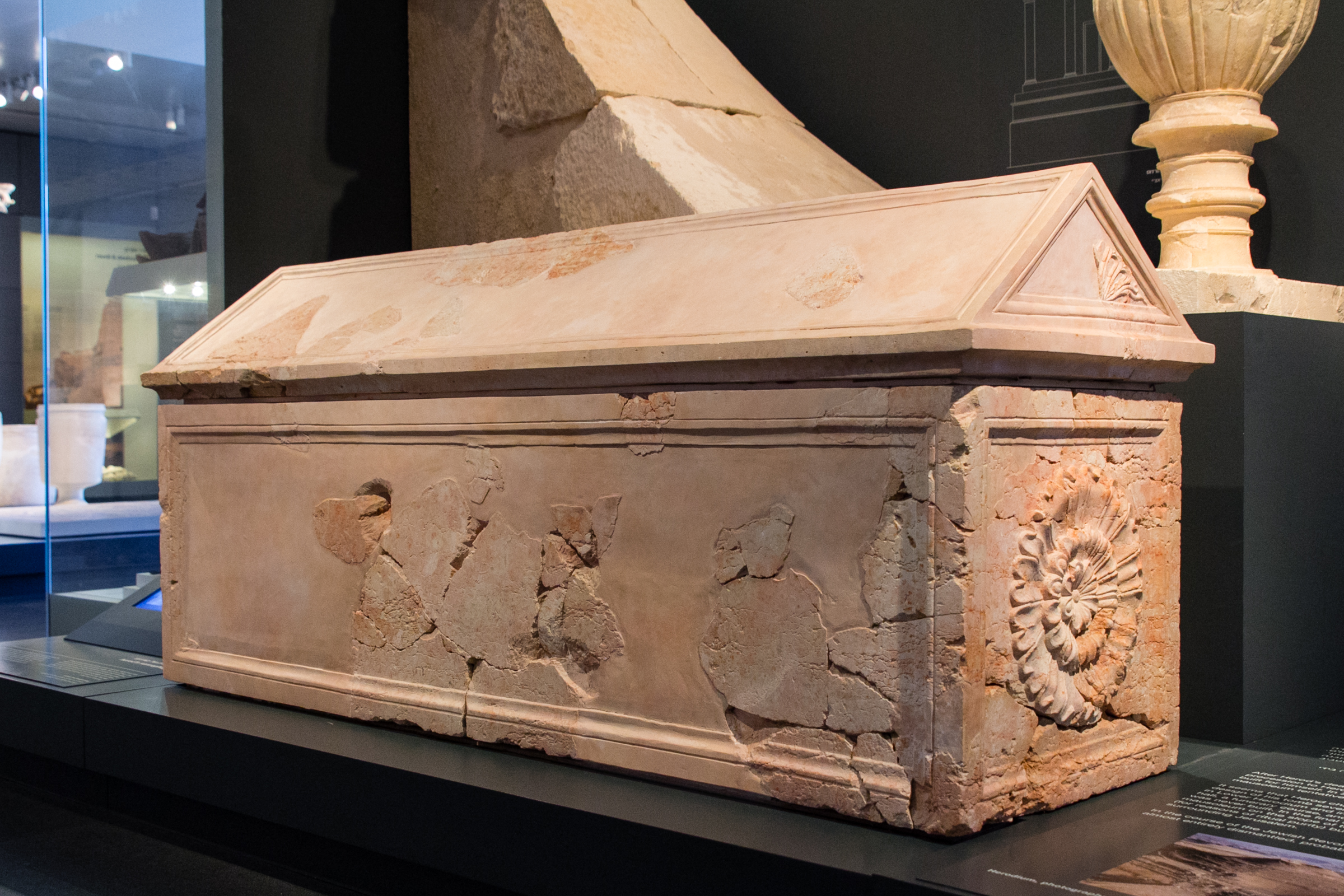 Sarcophagus, possibly of Herod, from Herodium. On display at the Israel Museum in Jerusalem